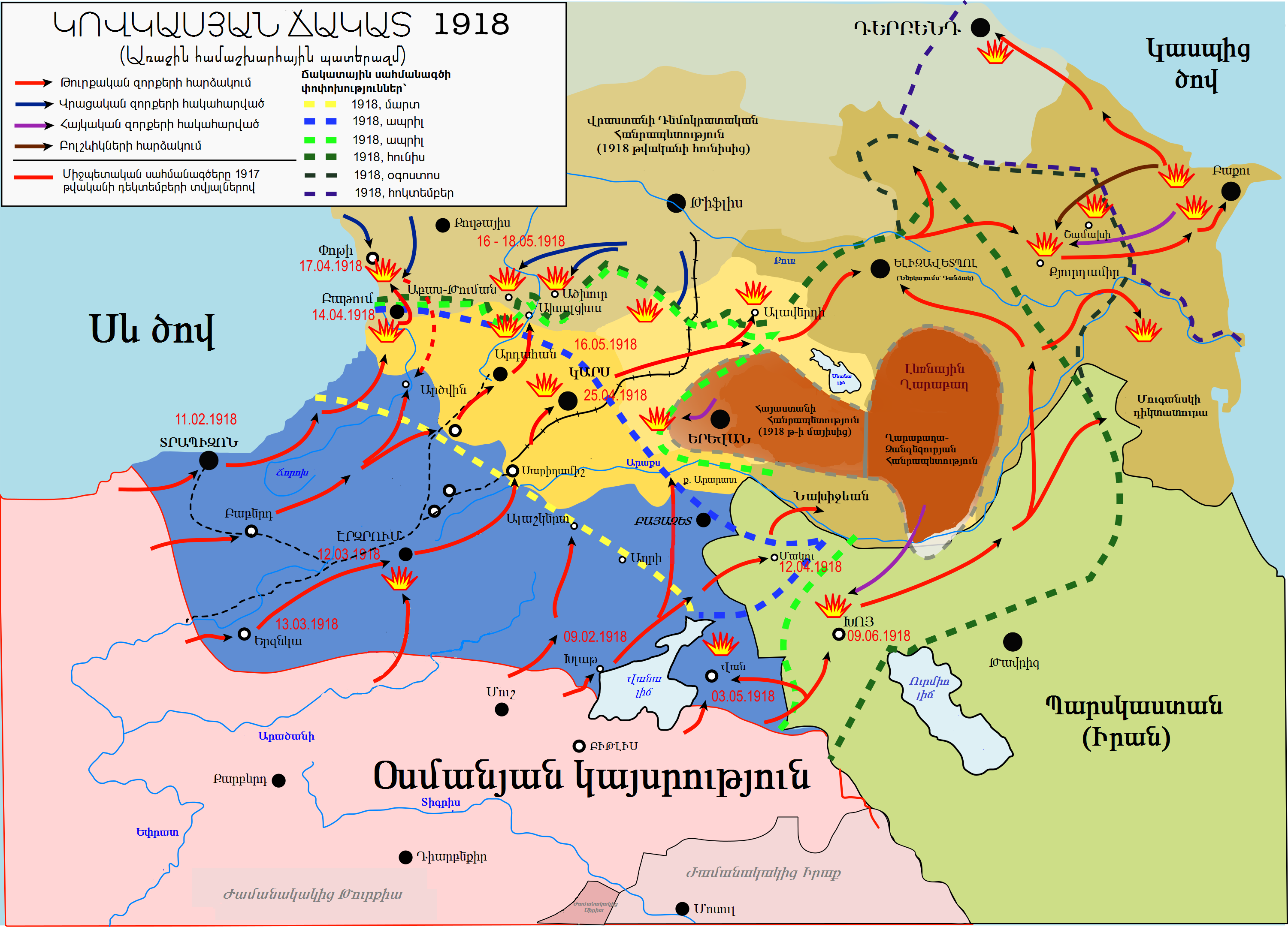 First World War in the Caucasus Front